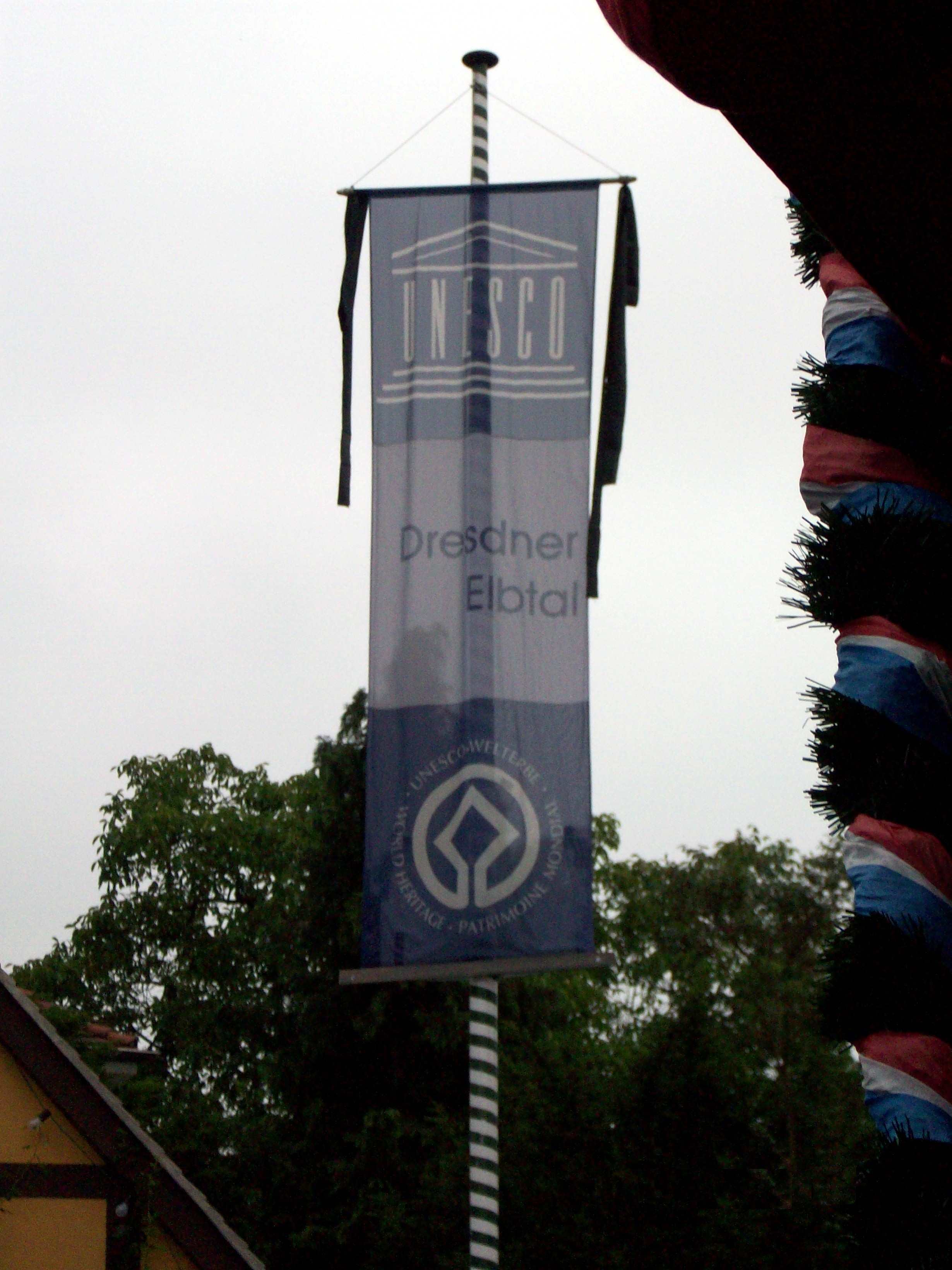 Dresden-Wachwitz: world heritage flag with mourning ribbon two days after delisting of Dresden Elbe Valley by UNESCO